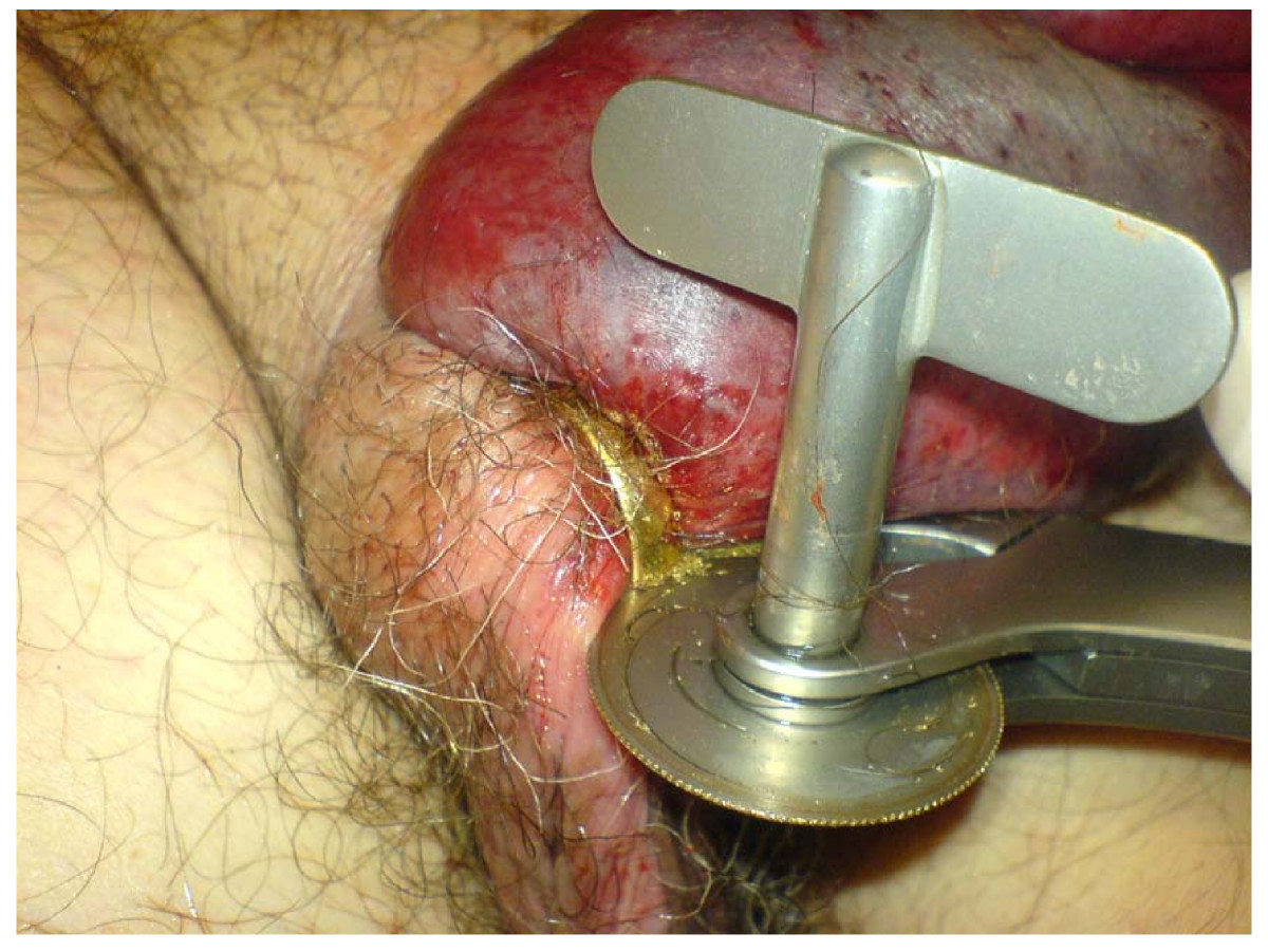 Penile strangulation with a wedding ring. The ring is removed by a ring cutter. Notice the distal penile oedema.